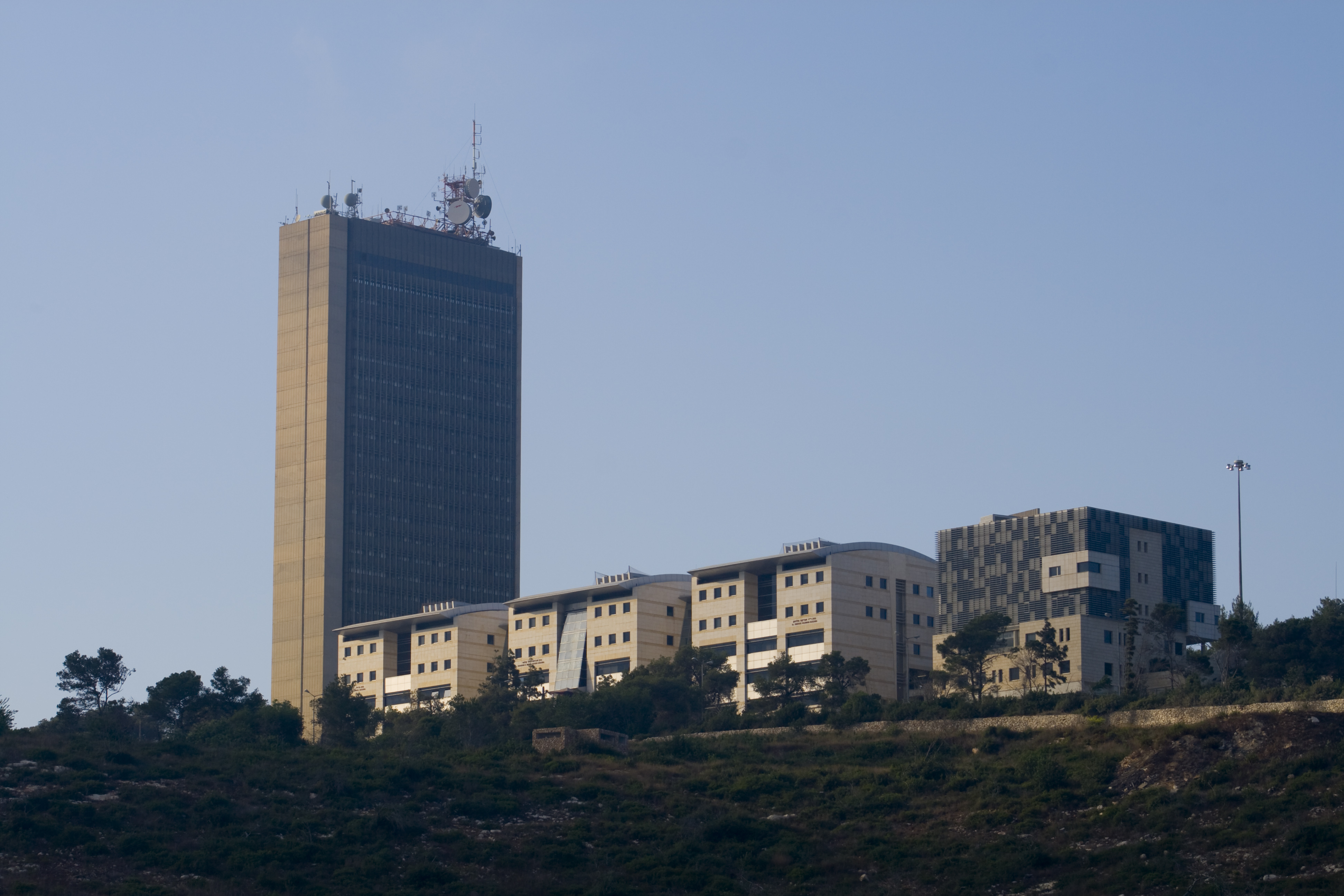 Haifa University, view from south. The pictured buildings are (from left to right): Eshkol tower, 3 buildings of the Education faculty, Computer Sciences building.